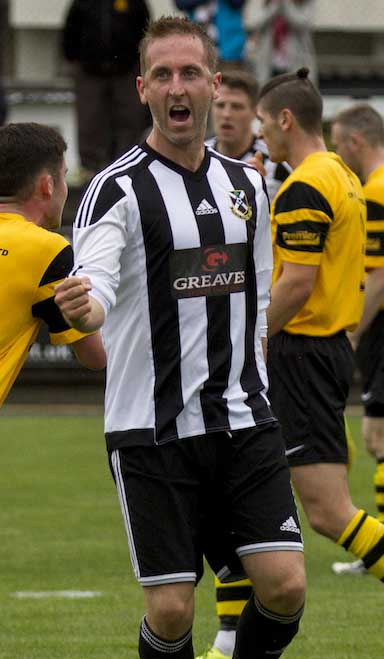 David Winters scoring in September 2015 against Kilbirnie Ladeside